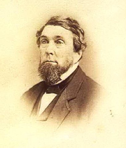 Reproduction of an albumen print on a visiting card of Edward Eastman; tan mount with black ink. Bust view of bearded man wearing a black jacket, white shirt and collar, black bow tie.